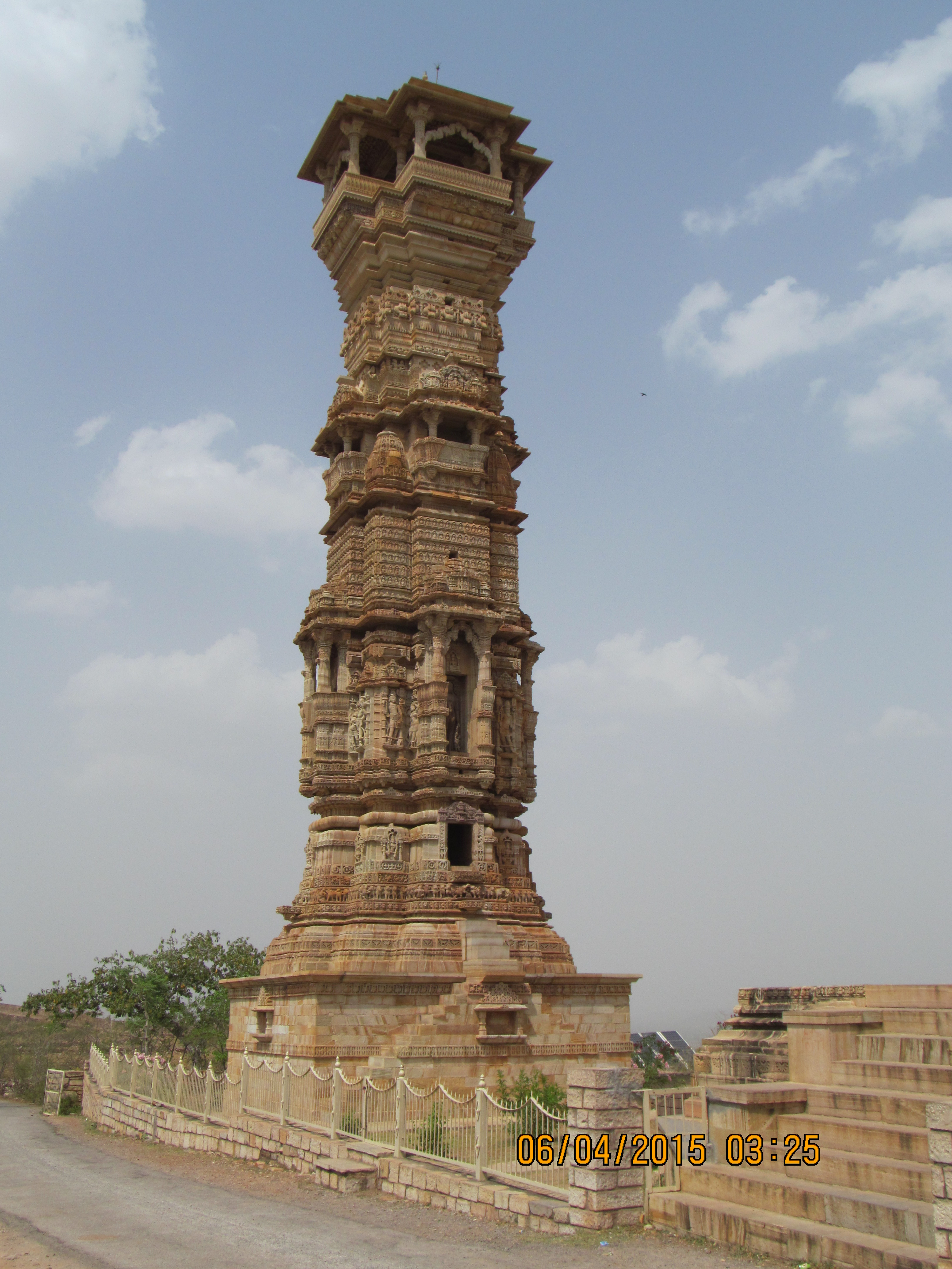 Kirti Stambha